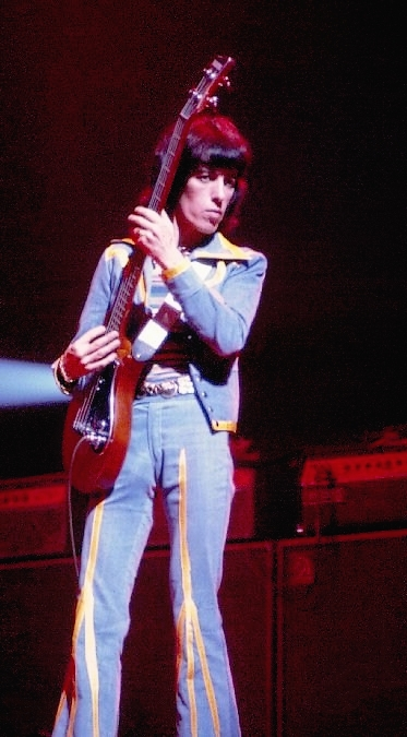 Bill Wyman, (former) bassist for the Rolling Stones, in concert in Chicago, Illinois, USA. With Dan Armstrong london bass